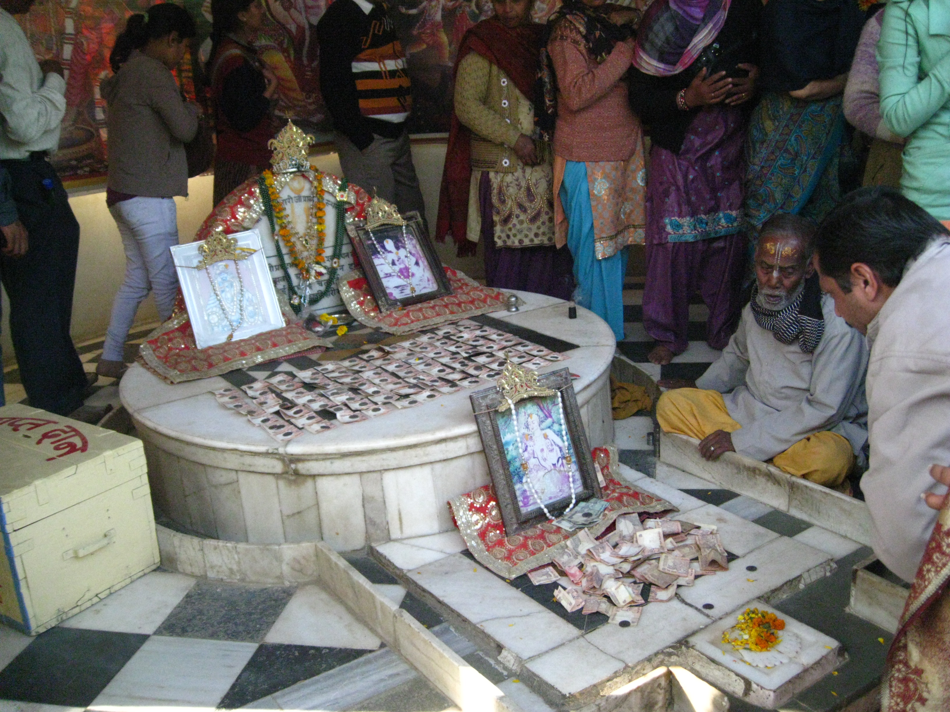 Nidhivana, Vrindavana - Bankebihari Prakatya sthala